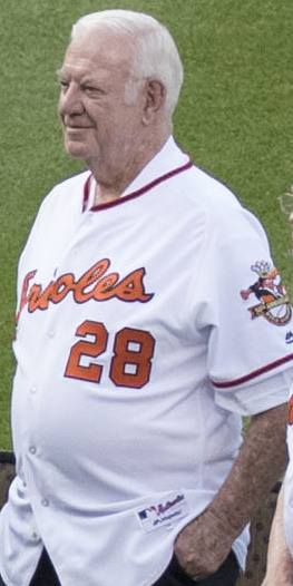 Members of the 1966 Orioles World Series championship team throw out the ceremonial first pitch before the Angels at Orioles game on 7/8/16 at Camden Yards in Baltimore